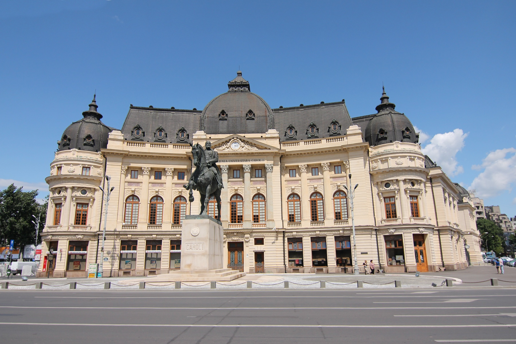 Library of Bucharest UniversityRomână: Biblioteca Universitară din București